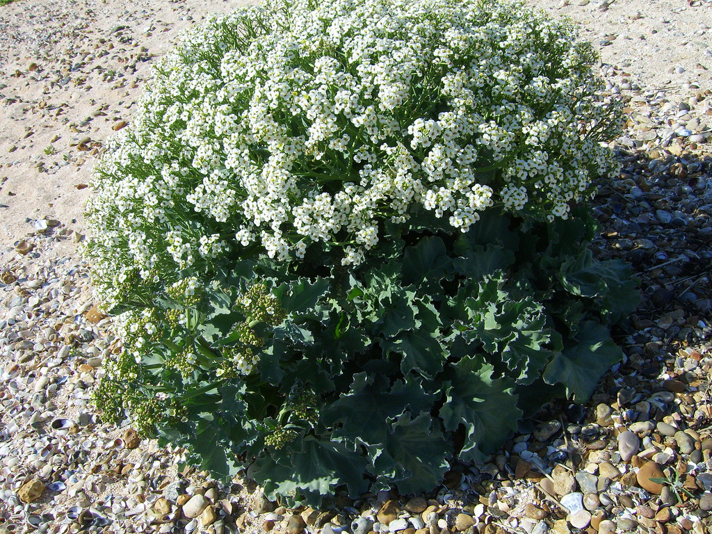 Sea Kale in flowers on Shellness Beach